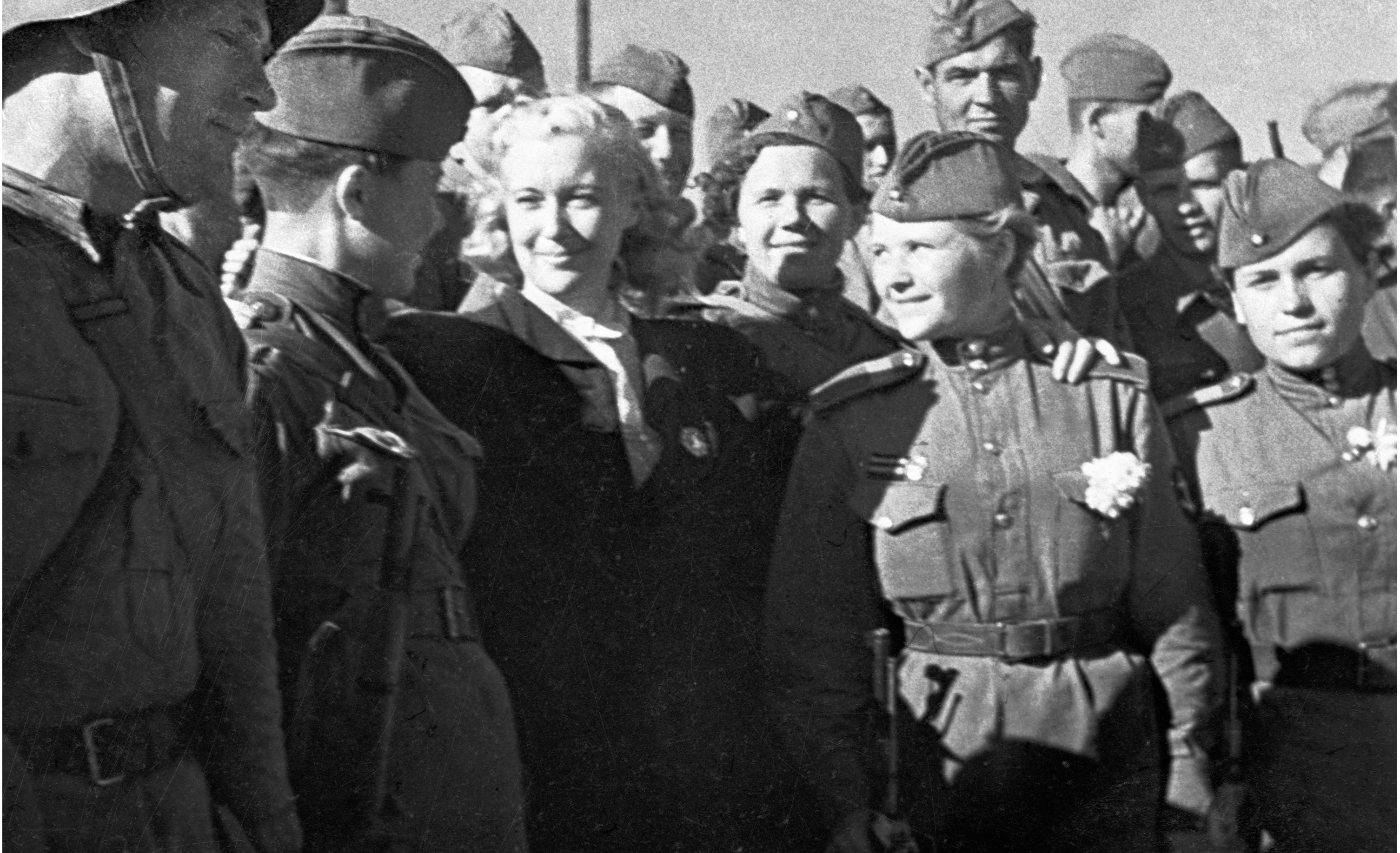 “Actress Lyubov Orlova sees off Soviet troops departing to the front”. Movie star Lyubov Orlova sees off Soviet troops departing to the World War Two front from the Baladzhary railroad station